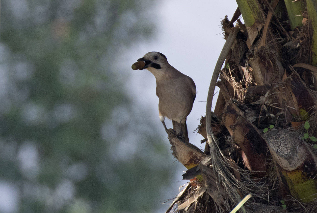 Eurasian Jay (Garrulus glandarius). Balcalı, Sarıçam - Adana, Turkey.